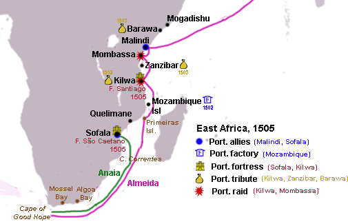 Outward journey of 7th Portuguese India Armada (D. Francisco de Almeida, 1505), showing also the 1505 expedition of Pero de Anaia to Sofala.